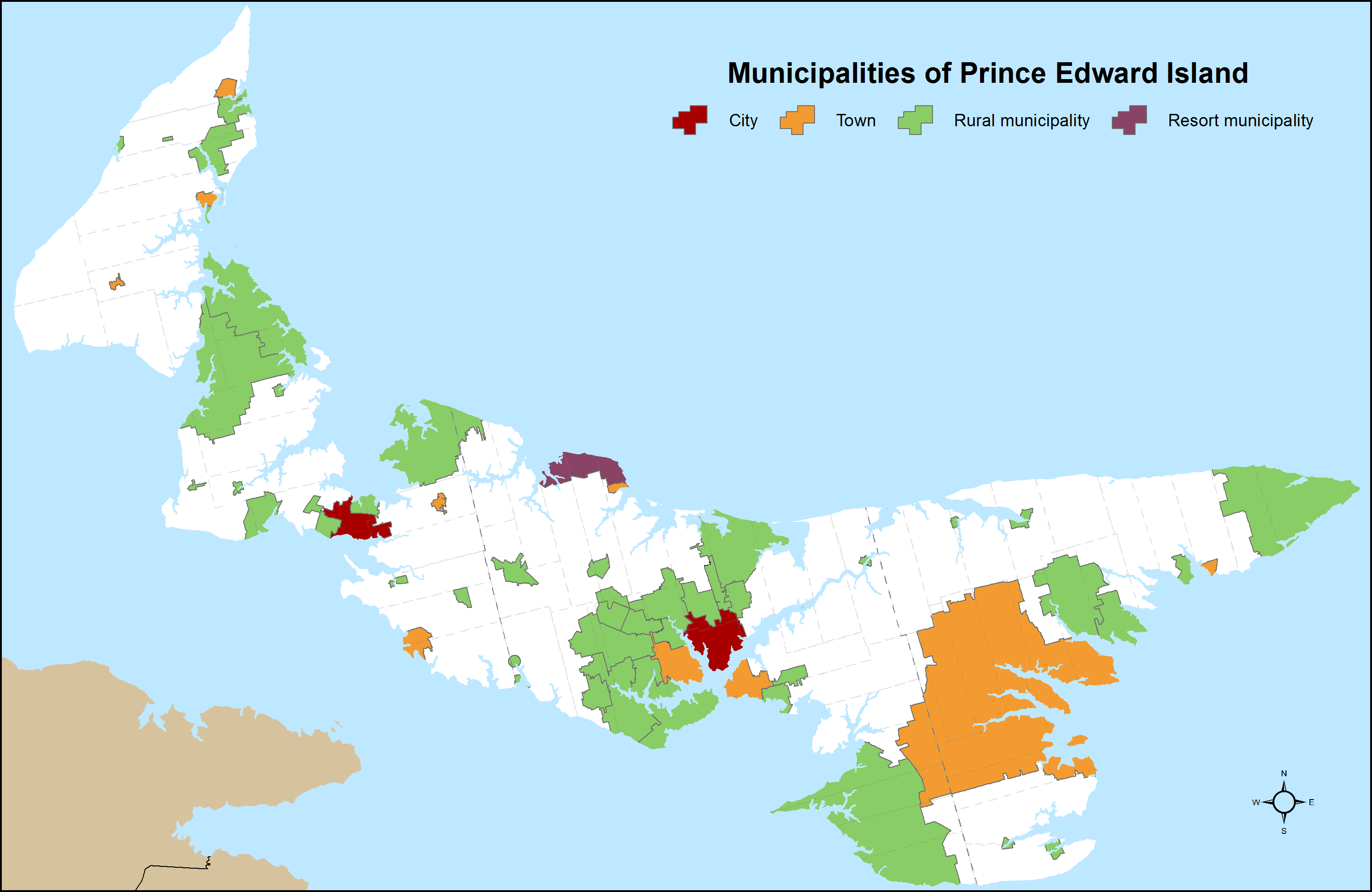 Distribution of Prince Edward Island's 63 municipalities (2 cities, 10 towns, 50 rural municipalities and 1 resort municipality) utilizing the Government of Prince Edward Island's municipal boundaries and Statistics Canada's base features.